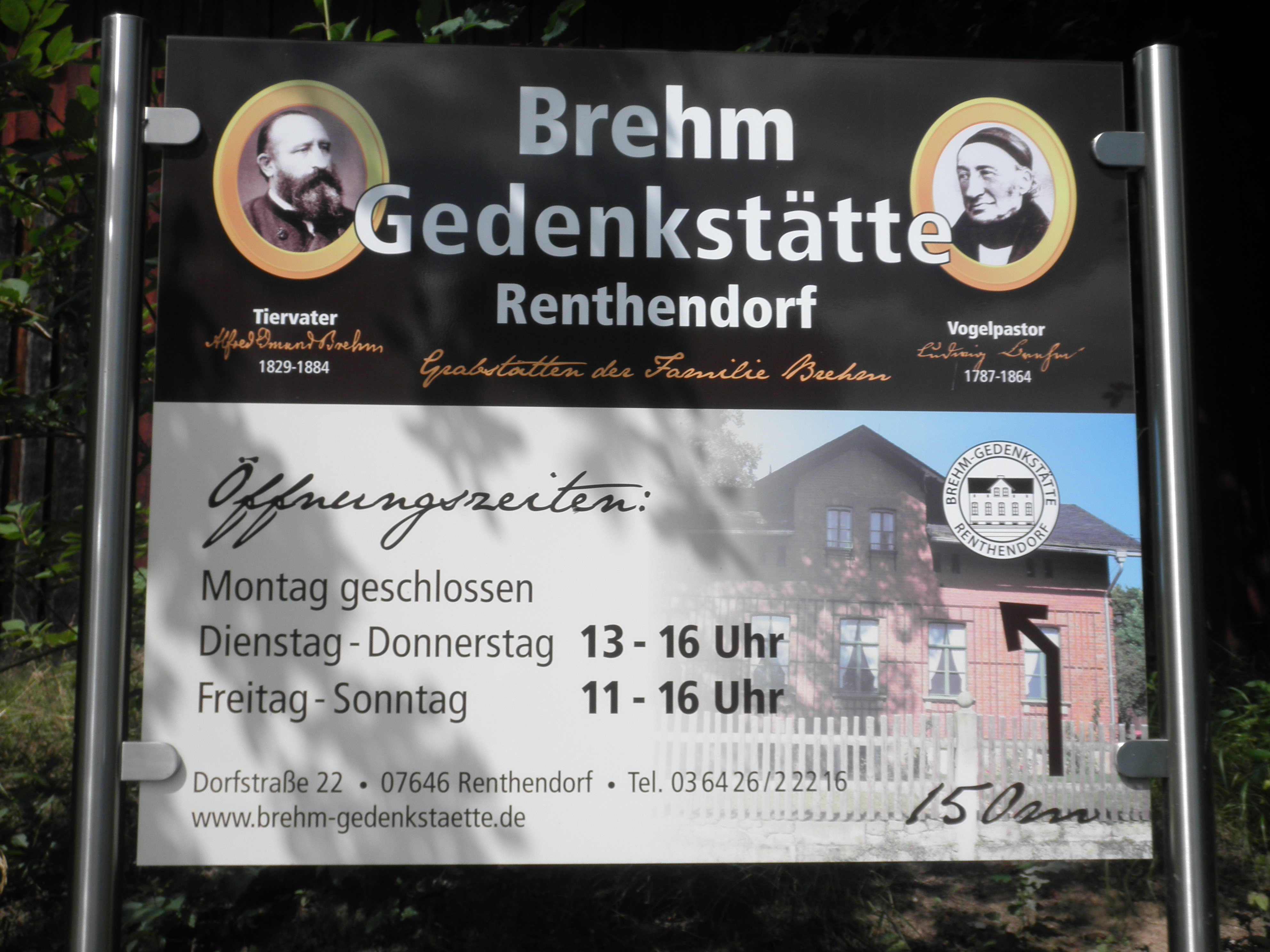 Alfred Brehm Memorial Site in Renthendorf in Thuringia